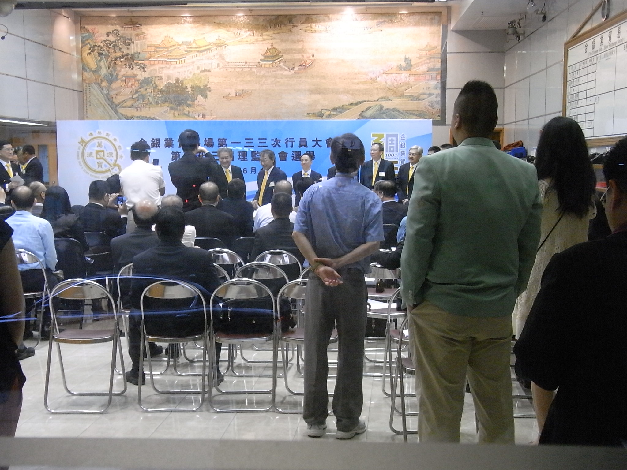 上環 香港金銀業貿易場